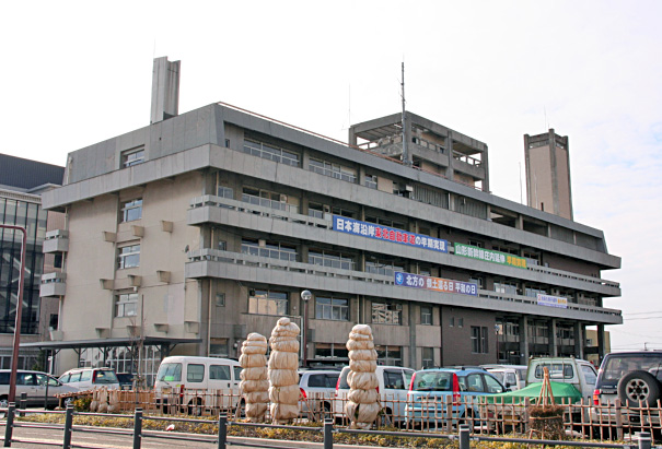 Sakata City Hall (Sakata City, Yamagata Prefecture, Japan.)